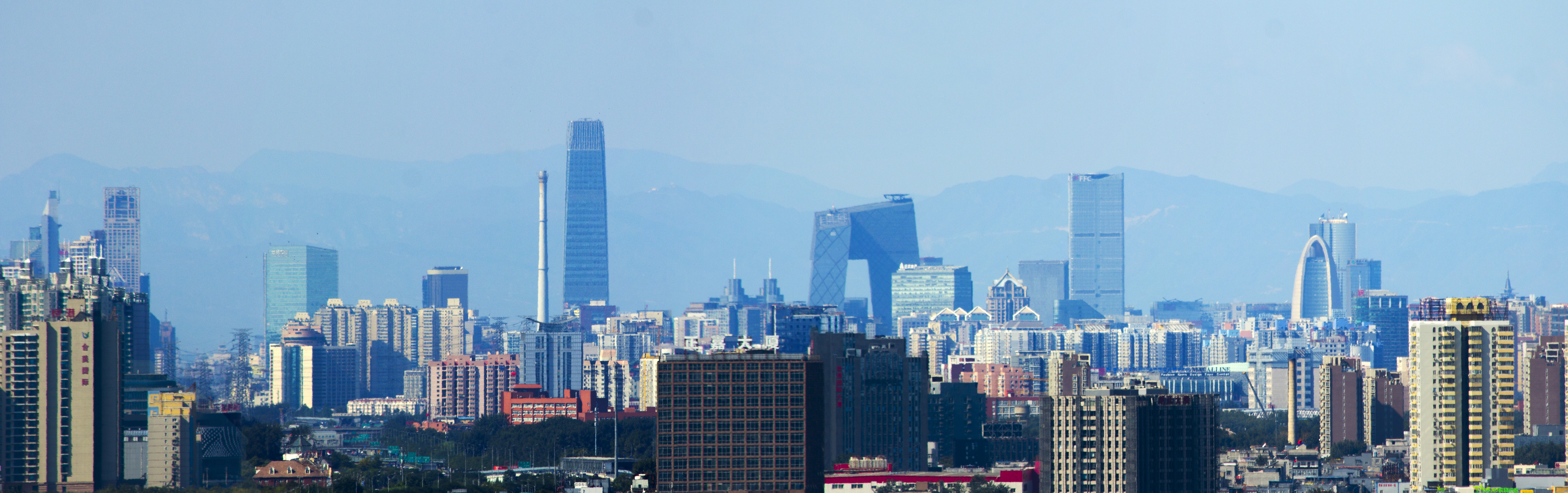 Beijing central business district view from Tongzhou